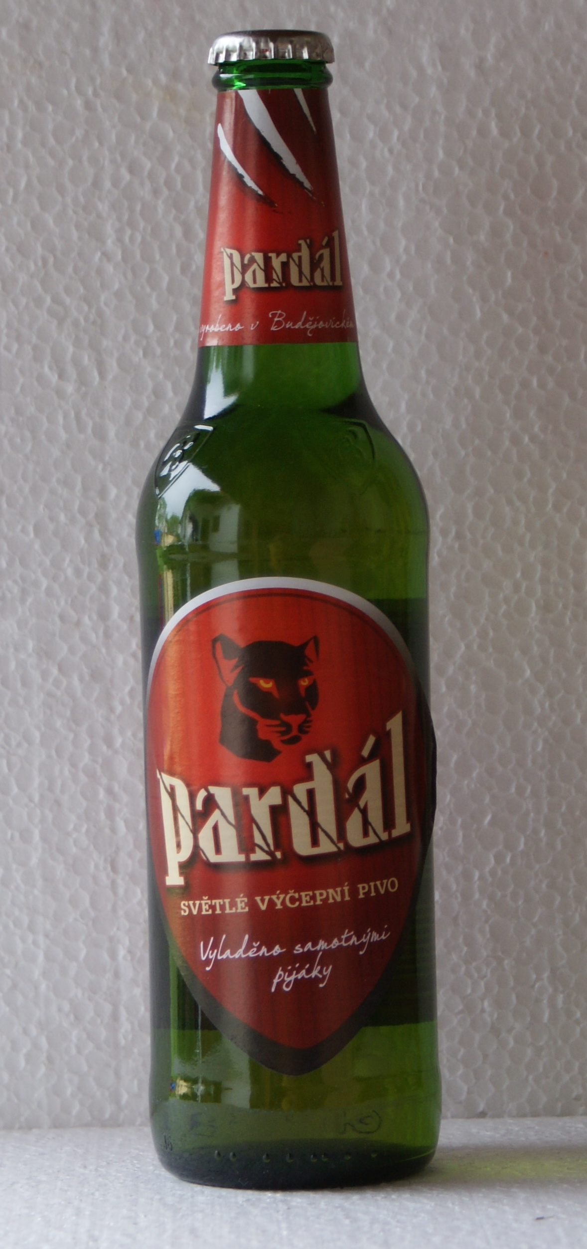 A bottle of Czech beer Pardál